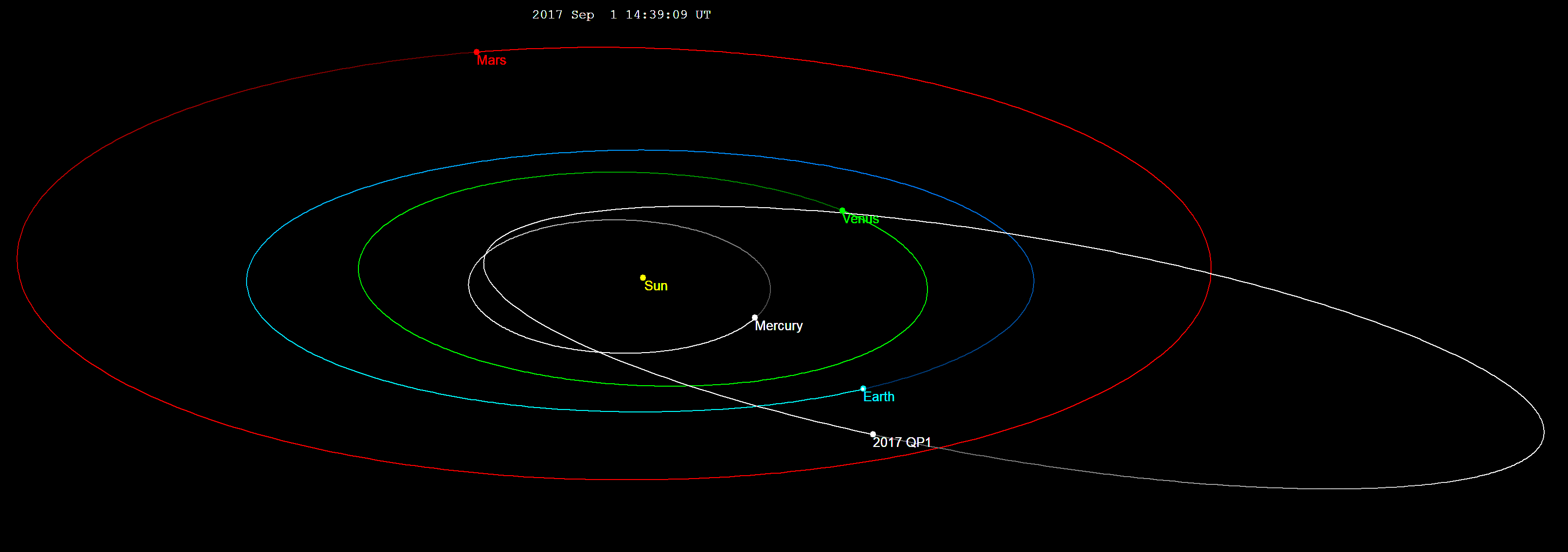 flyby on August 13, 2017, showing 10 minute movements past the earth and geosynchronous orbits in green